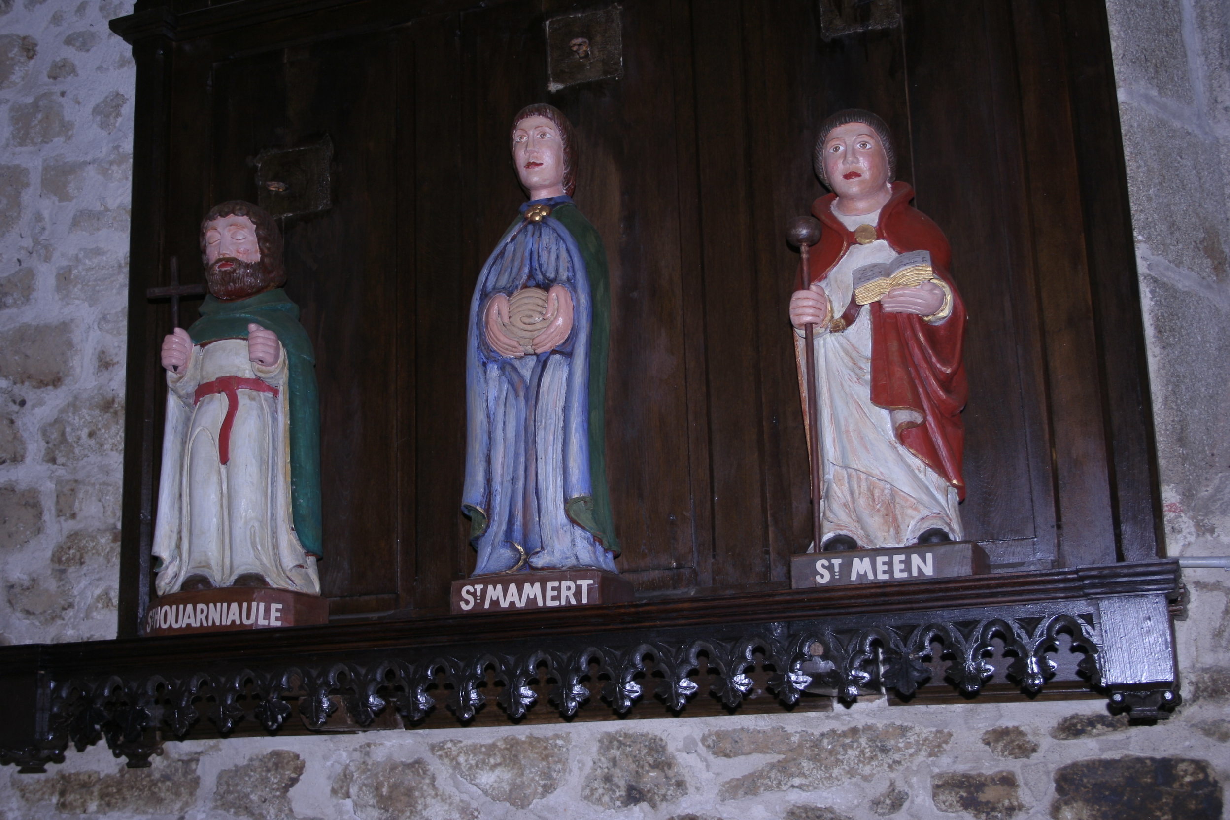 Polychromatic sculptures in Notre Dame de Haut near Trédaniel This object is classé Monument Historique in the base Palissy, database of the French furniture patrimony of the French ministry of culture, under the references PM22001969 and PM22001970.